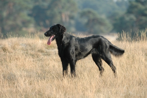 Flatcoat retriever teef.